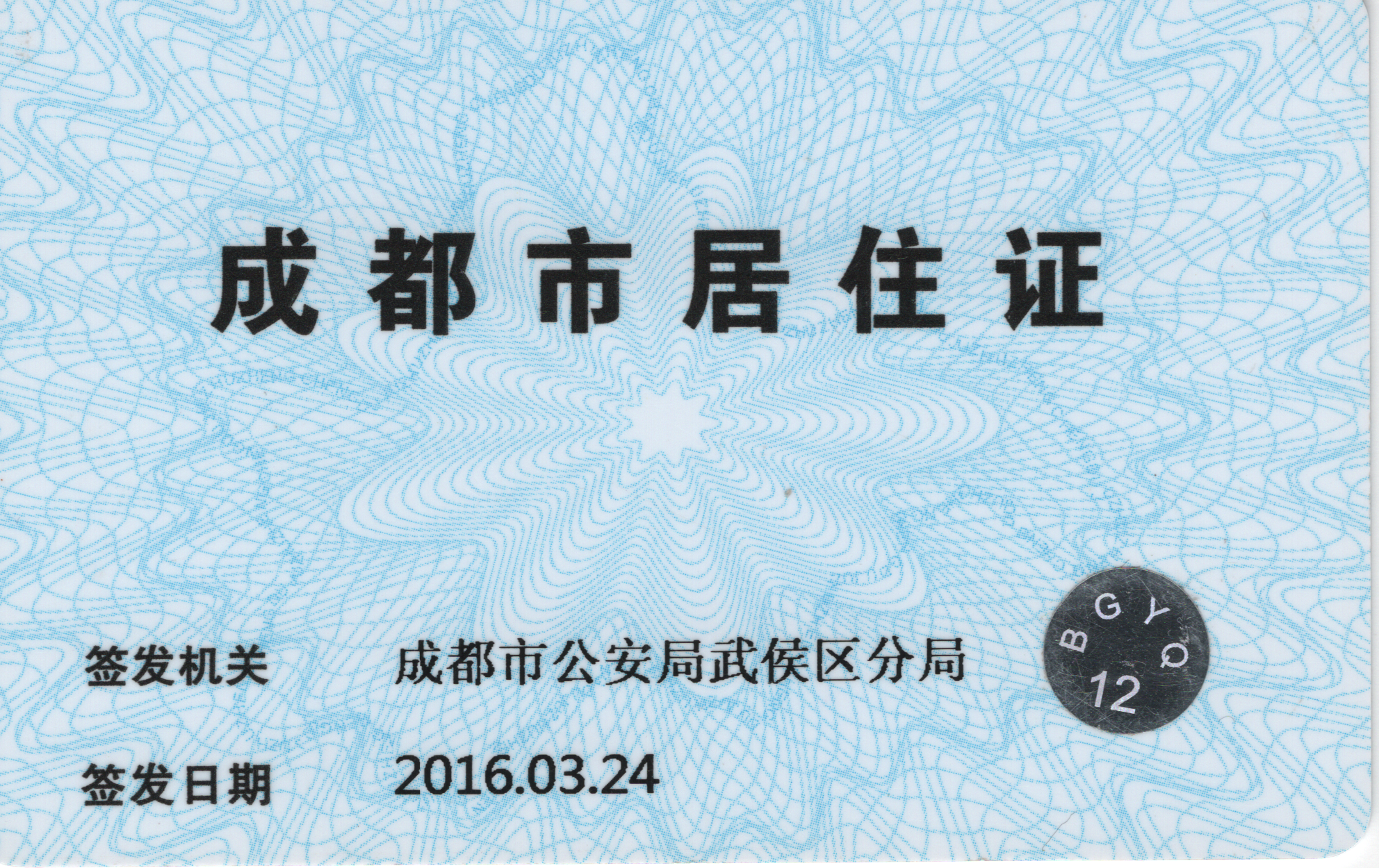 Residence Permit of Chengdu - Back